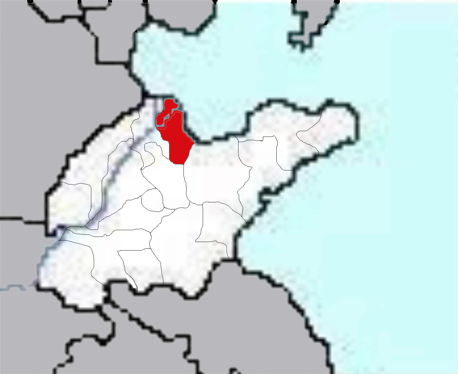 Map of Shandong Province of China